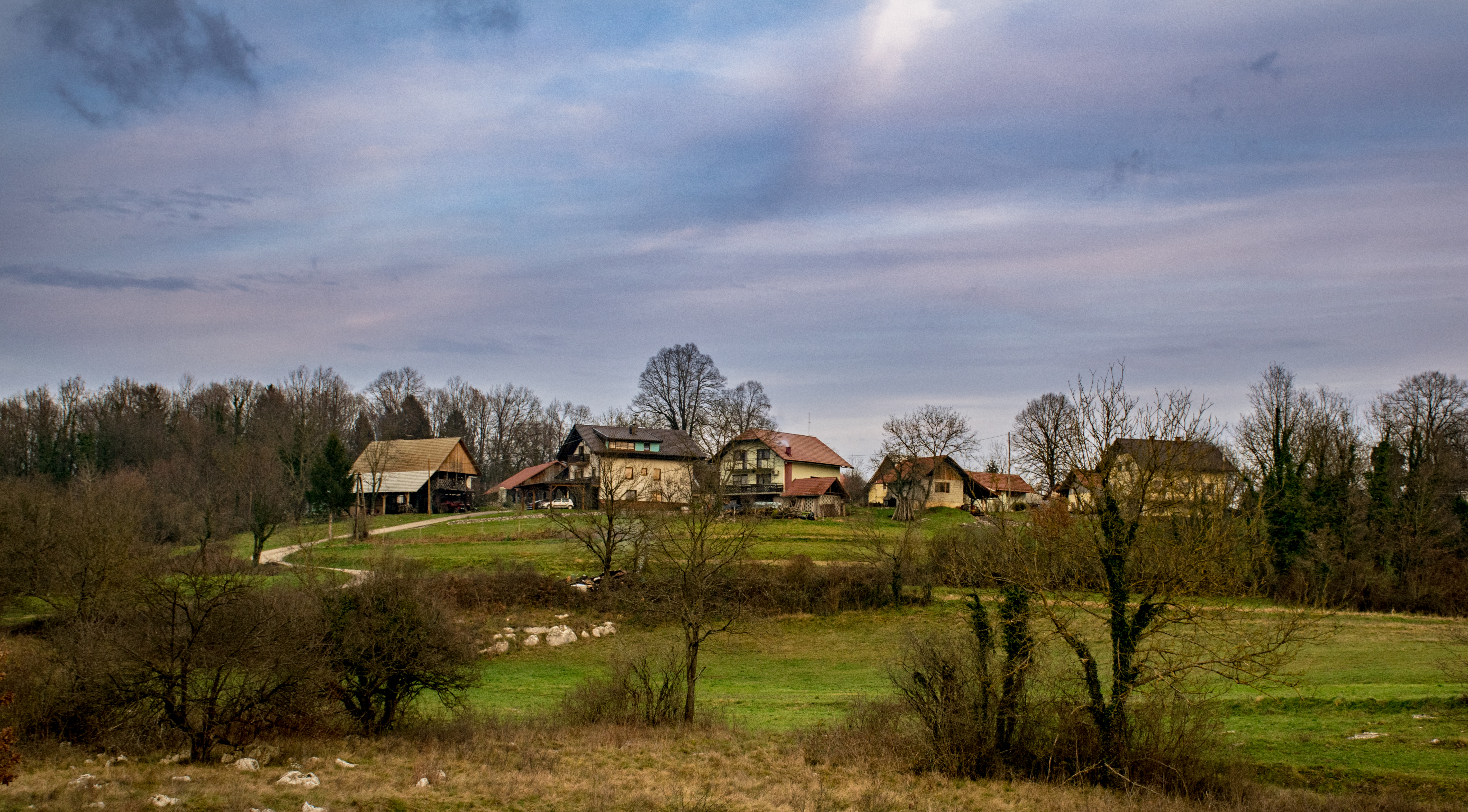 Small hamlet of Coklovca in Semič. Until 2001 Coklovca was an independent village, but was joined to the larger settlement of Semič in 2001.